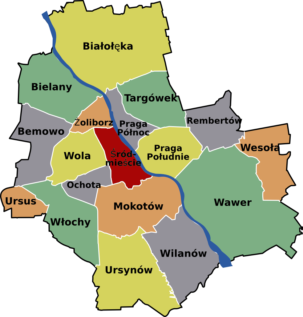 Warsaw Districts. Map of showing Warsaw's Śródmieście district in dark red, Warsaw.